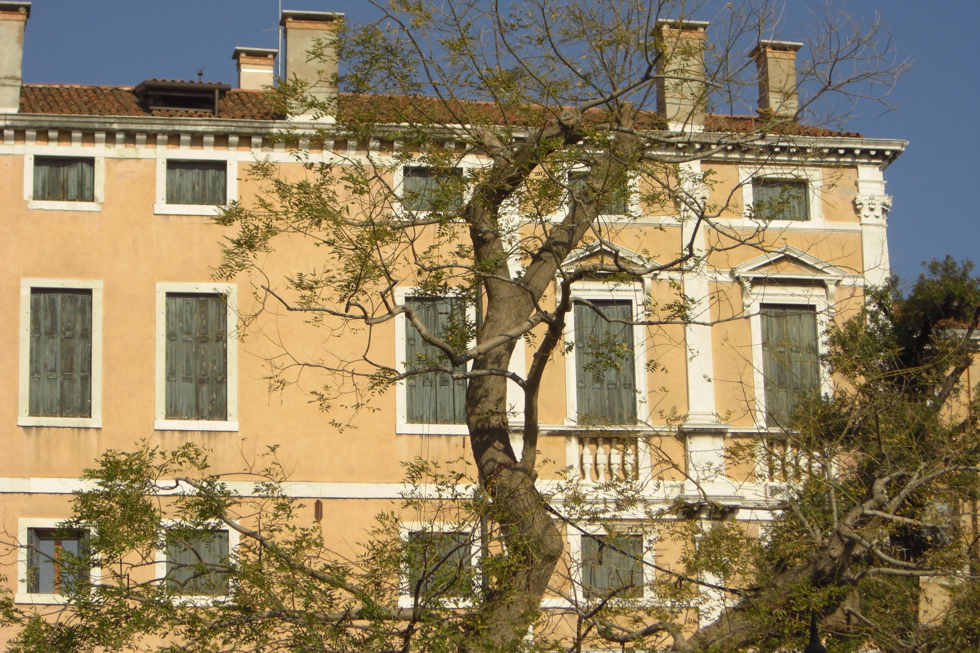 Procuratie Nuove-southern facade, showing the transition from Scamozzzi's design (right)